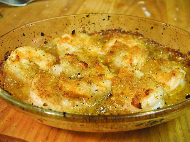 From Jon Sullivan's . Shrimp scampi - 2002-01-01 "Since you're rich and spoiled, it might not seem like the economy has gone into the toilet, so I'd just like to bring that to your attention - The economy has gone into the toilet." Camera: Olympus 2100UV, Not recorded, Lens: Not recorded, Not recorded, Not recorded, ISO Not recorded